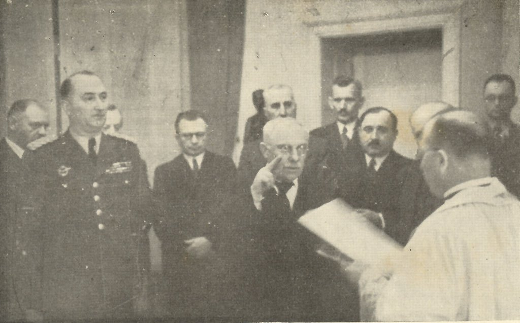 Vladko Maček, HSS president, takes an oath to become vice president of a new Yugoslav royal government under general Simović